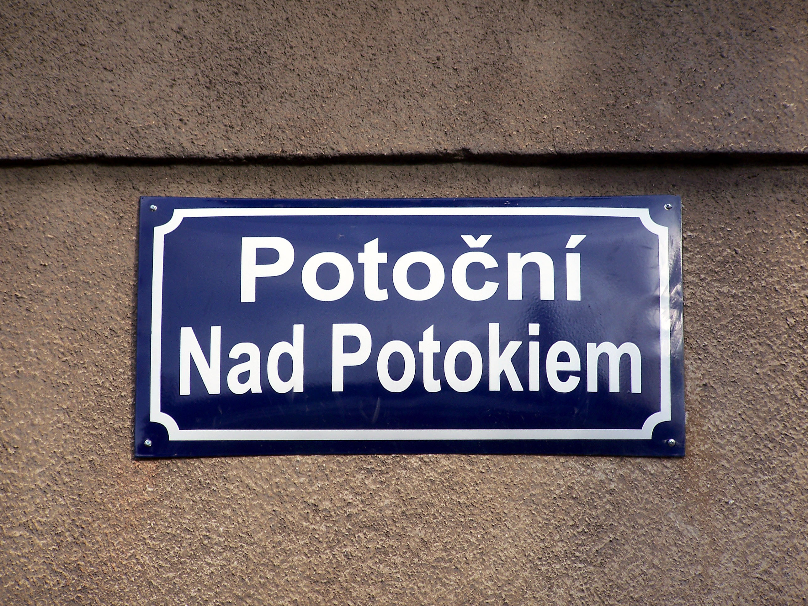 Bilingual street names (Czech and Polish) in Český Těšín (Czeski Cieszyn)